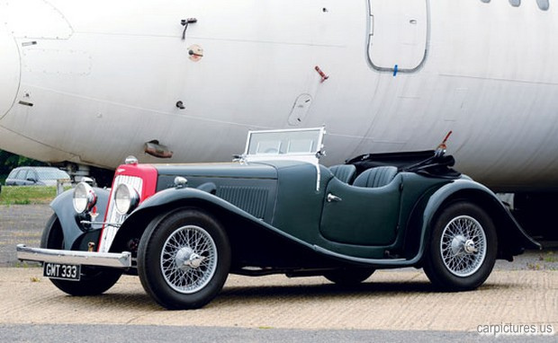 1938 Aston Martin 15-98 Open Sports Tourer by Abbey Coachworks